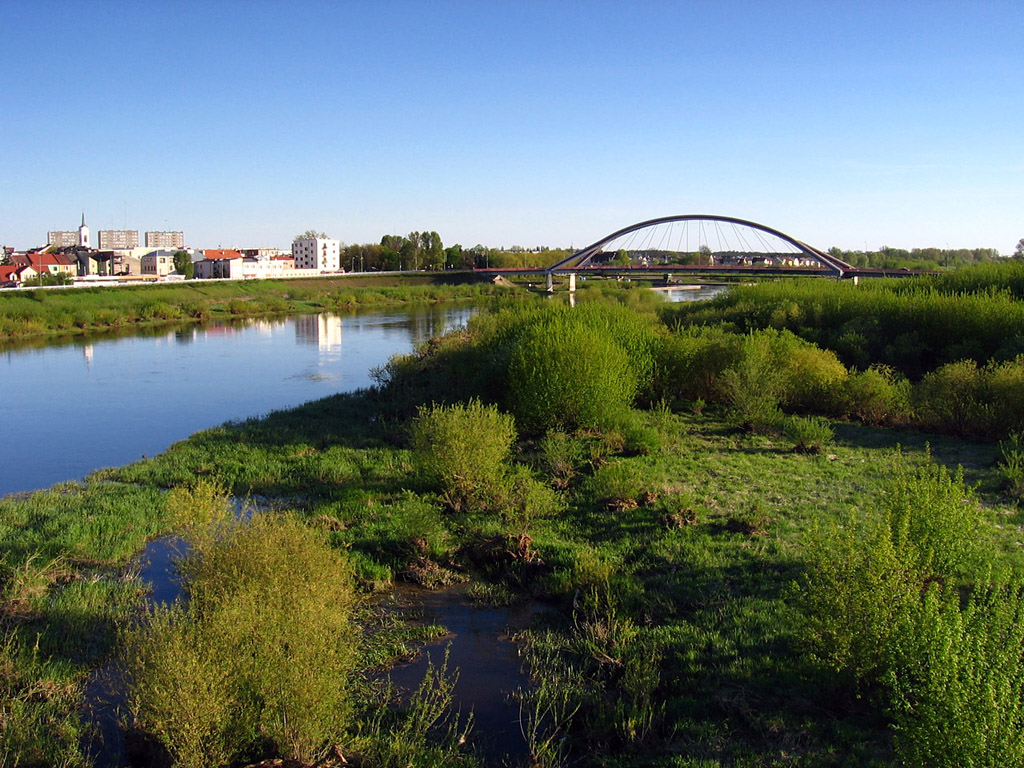 City of Ostroleka (Poland), the Madalinski Bridge.